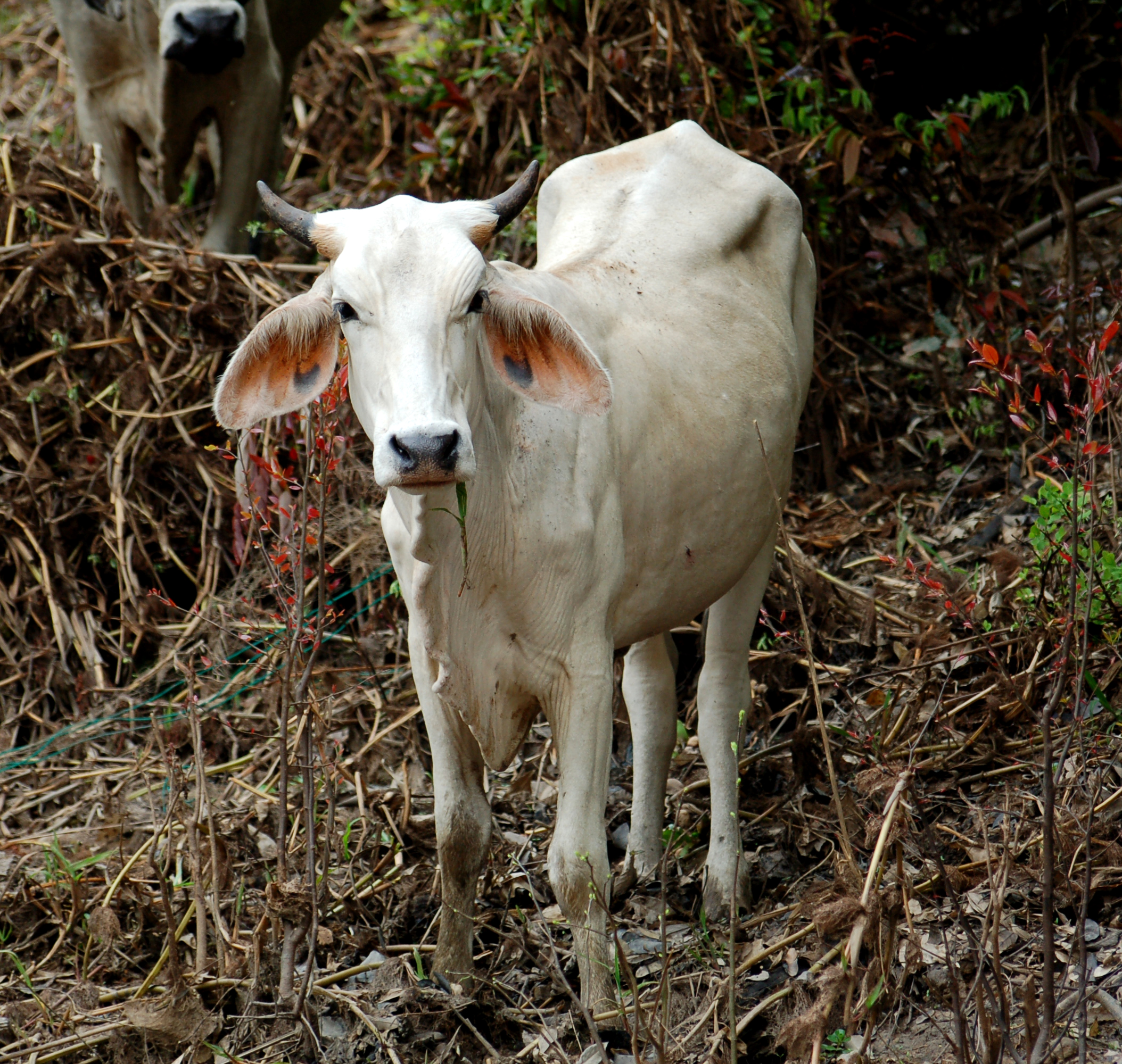 A cow along the Rio Negro in Brazil. Also a common sight in Colombia